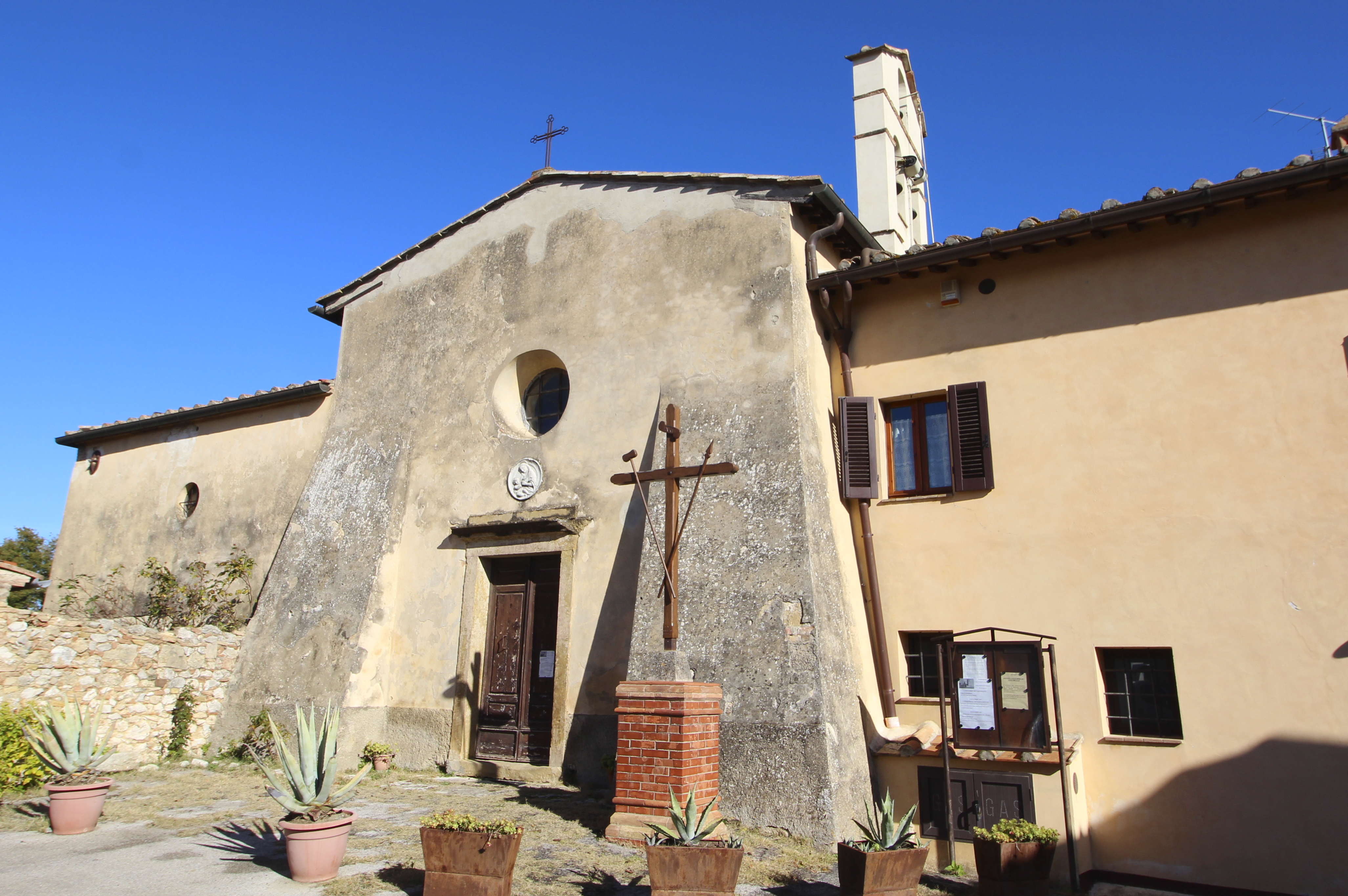 Church Santa Lucia, in Santa Lucia, hamlet of San Gimignano, Val d'Elsa, Province of Siena, Tuscany, Italy